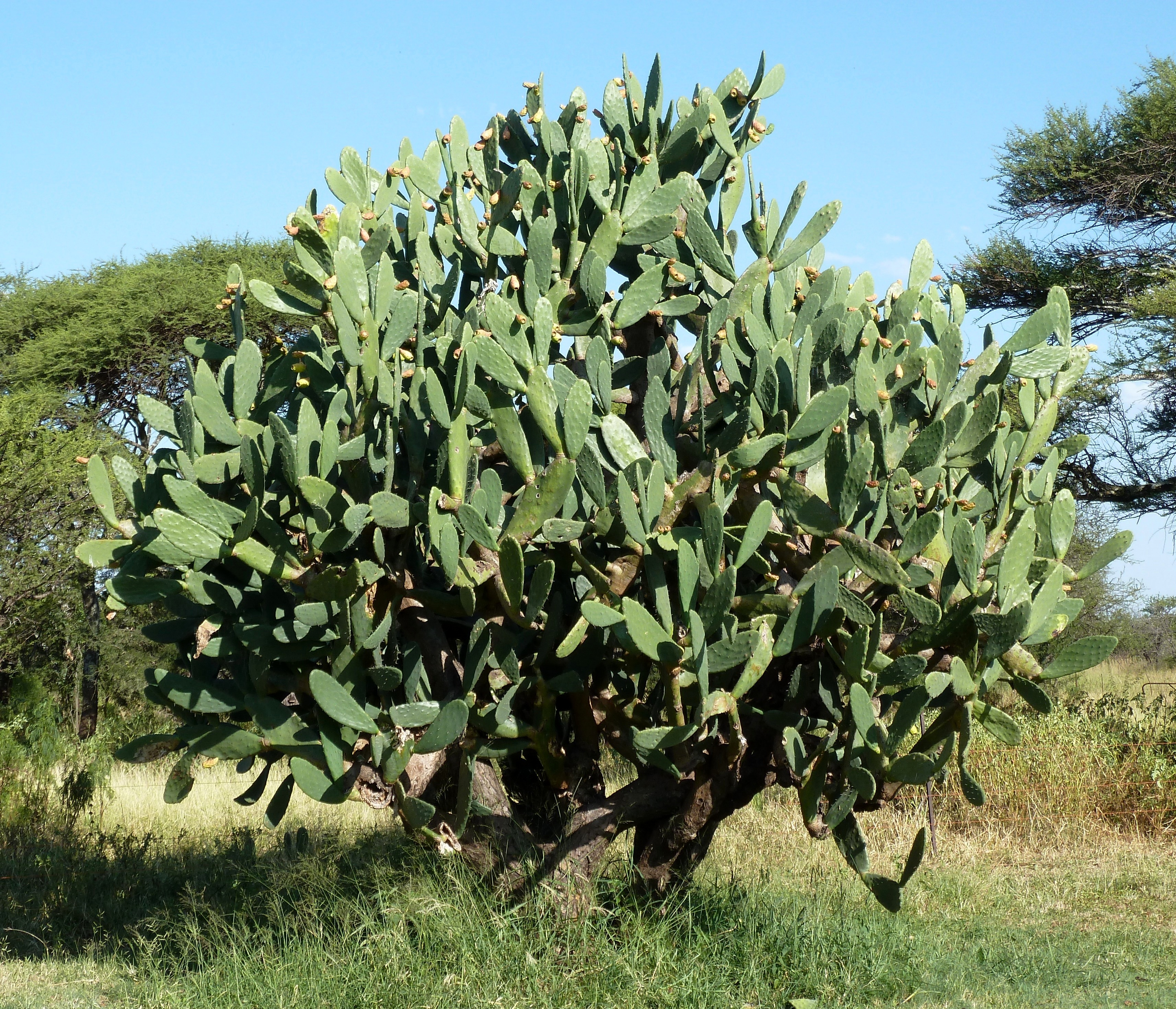 Sweet prickly pear on the Springbok Flats, South Africa